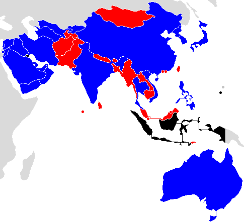 Map showing the status of each team participating in the qualification competition for the 2019 AFC Asian Cup. Country qualified for Asian Cup Country failed to qualify Country disqualified or withdrew